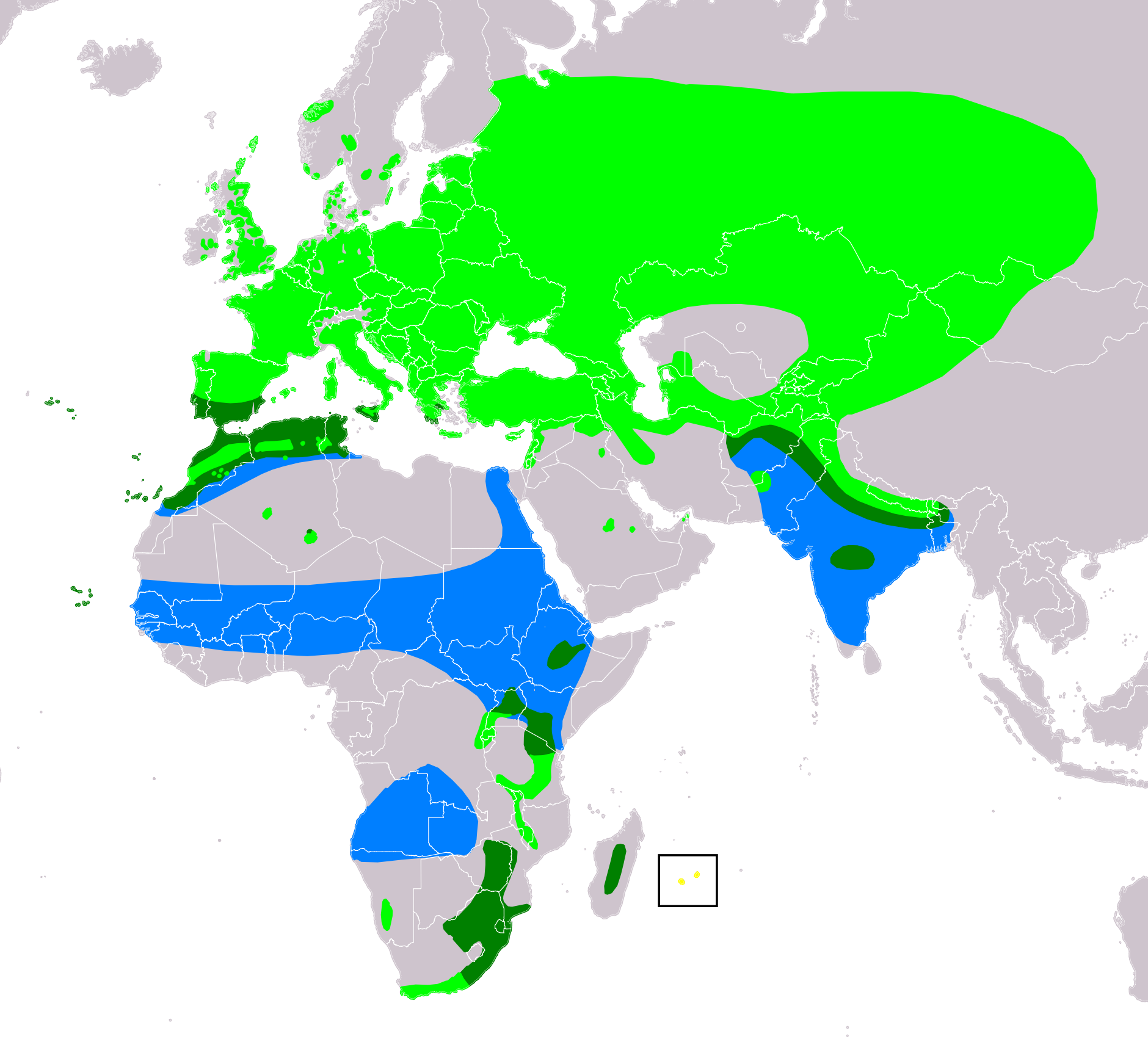 Distribution map of common quail (Coturnix coturnix) according to IUCN version 2019.2 ; key: Legend: Extant, breeding (#00FF00), Extant, resident (#008000), Extant, non-breeding (#007FFF), Probably extinct & Introduced (#FF80FF), Extant & Introduced (resident) (#FFFF00)